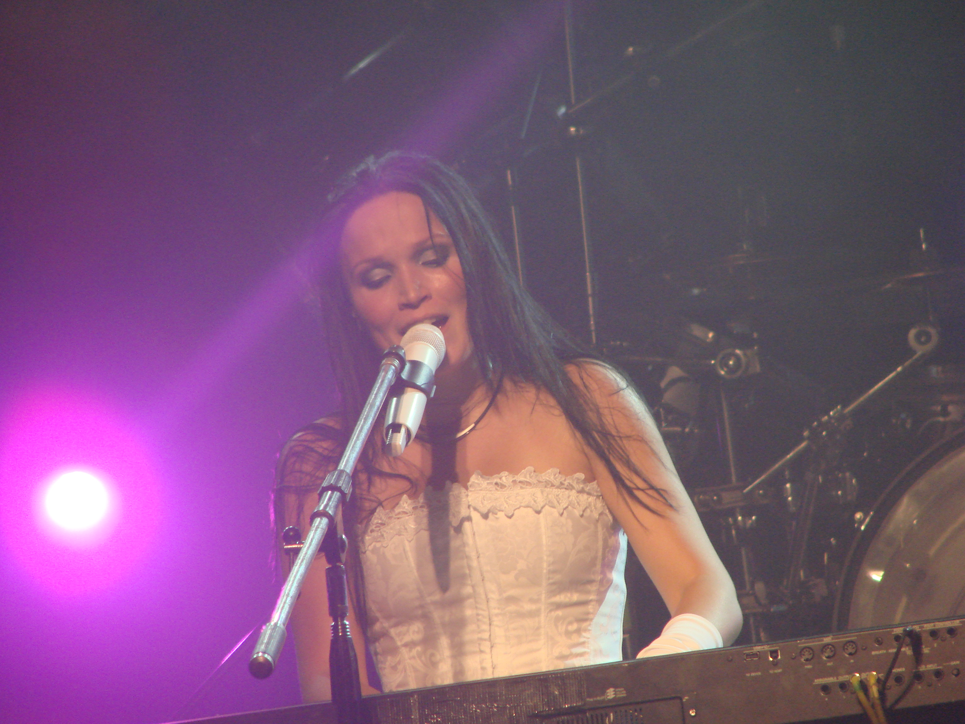 Tarja Turunen singing at the Obras Stadium in Buenos Aires, Argentina, on September 6, 2008. This was the last show of the Winter Storm tour on America.